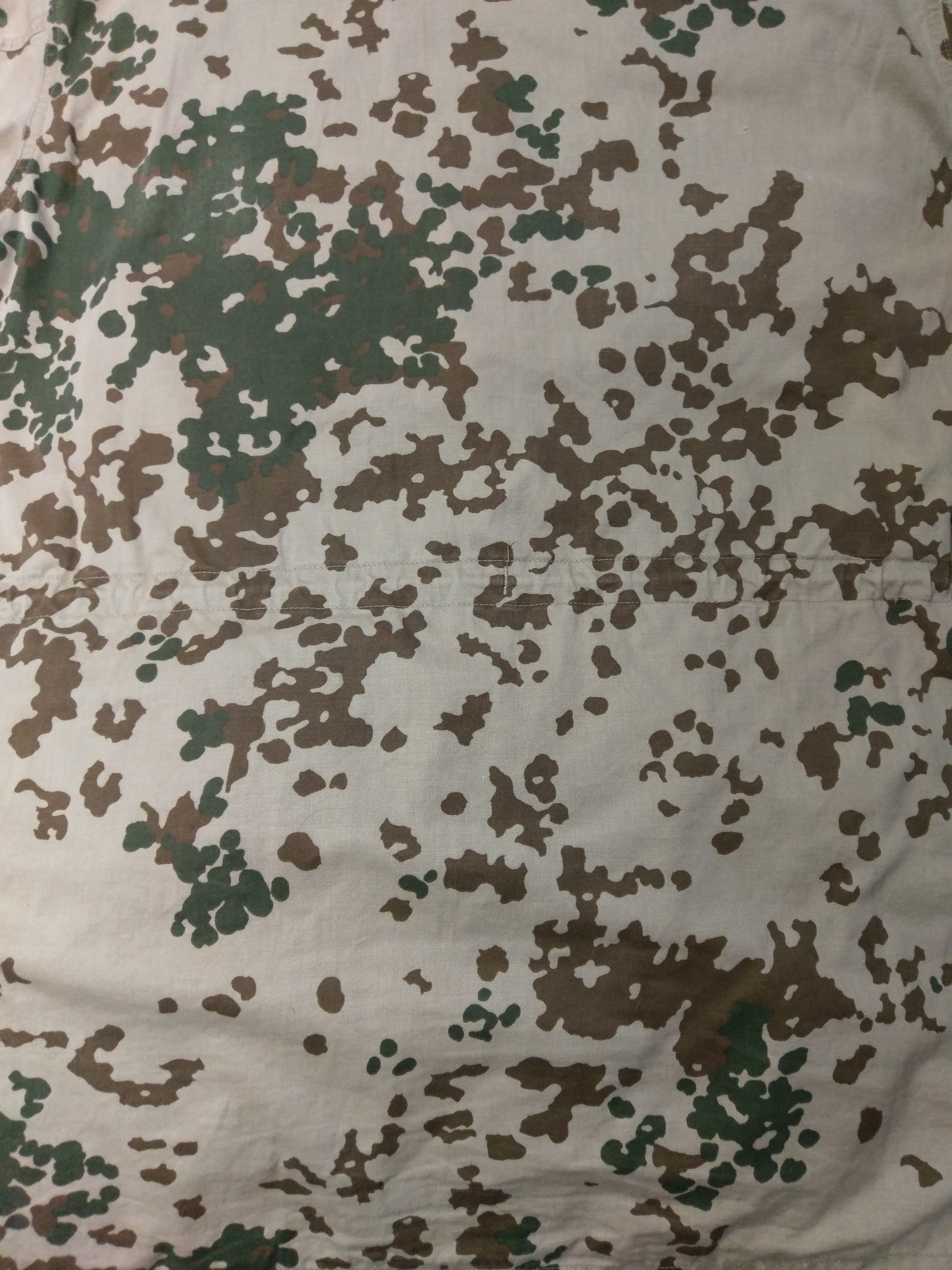 German Army (Bundeswehr) Tropentarn camouflage fabric